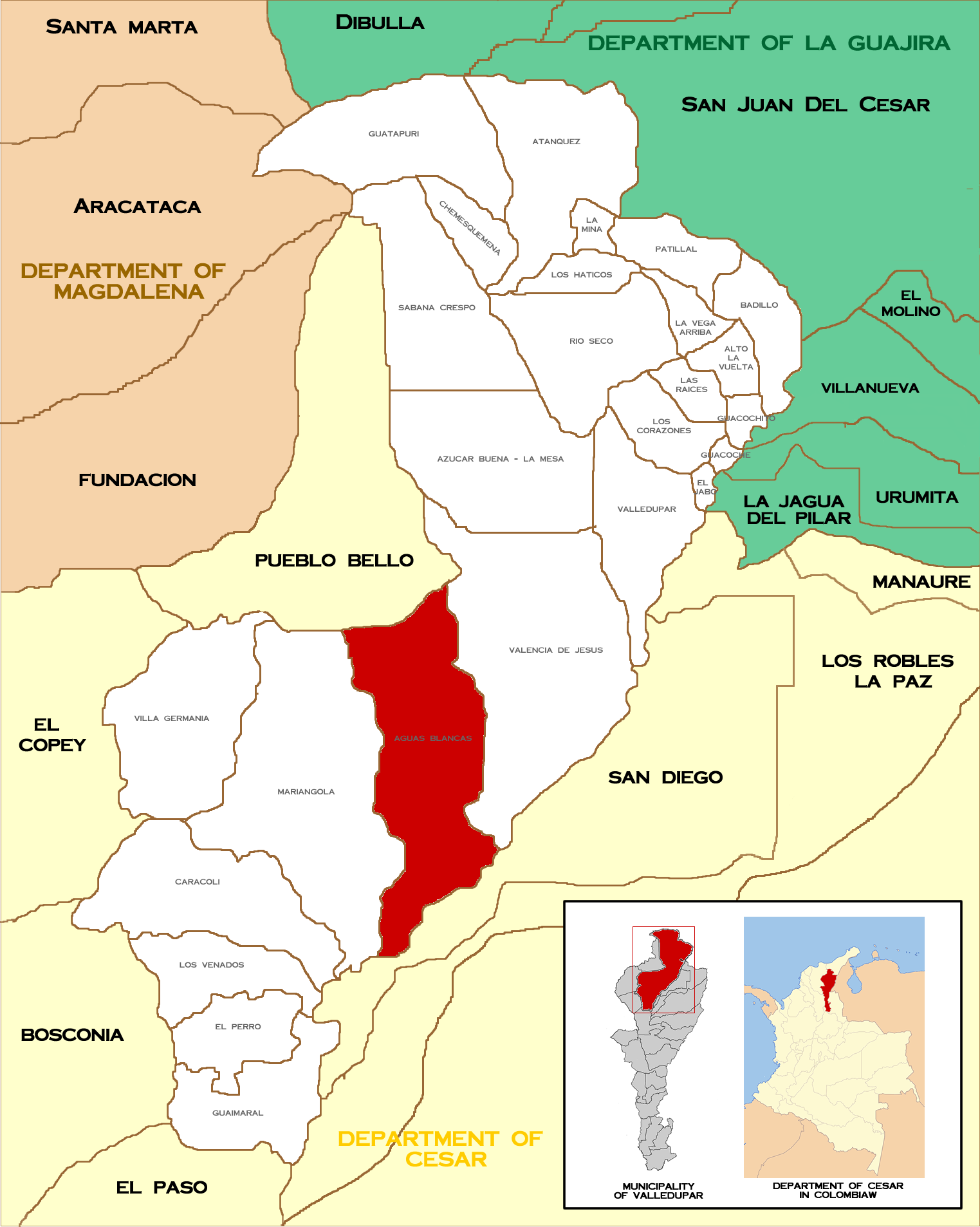 Map of Corregimientos of Valledupar, Aguas Blancas